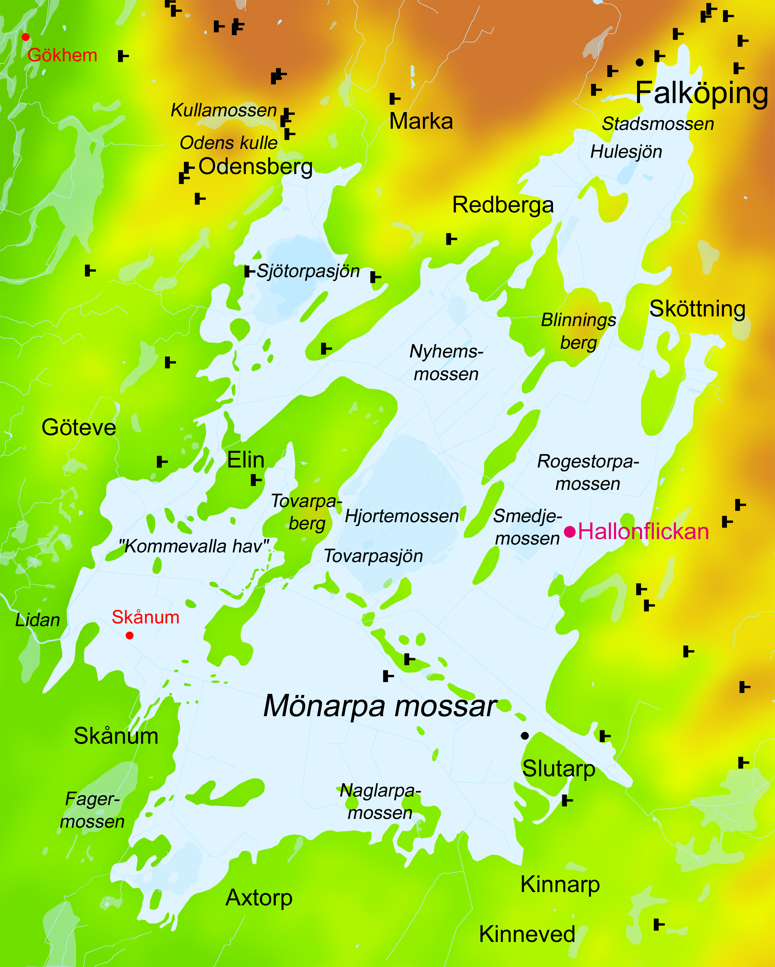 Exhibition picture (original file) created by the archaeologist Gunnar Creutz for the archaeological exhibition Hallonflickan (i.e. "The Raspberry Girl") in the summer of 2011 at Falbygdens museum in Falköping, former Skaraborg County, Västergötland, Västra Götaland County, Sweden. Map over the bog complex Mönarpa mossar (Mönarp's bogs) in the municipality of Falköping, Västergötland (Westrogothia), Sweden. Scale circa 1:15,000. Land is green to red depending on altitude. Lakes and watercourses are light blue. Bogs are even lighter blue. Drained peat soil is the lightest blue. The site, where the Neolithic skeleton called "The Raspberry Girl" (Hallonflickan) was found, is marked red. The neolithic passage graves of the area are marked with black T-signs. The uploaded file is the original file that the exhibited picture was printed from.